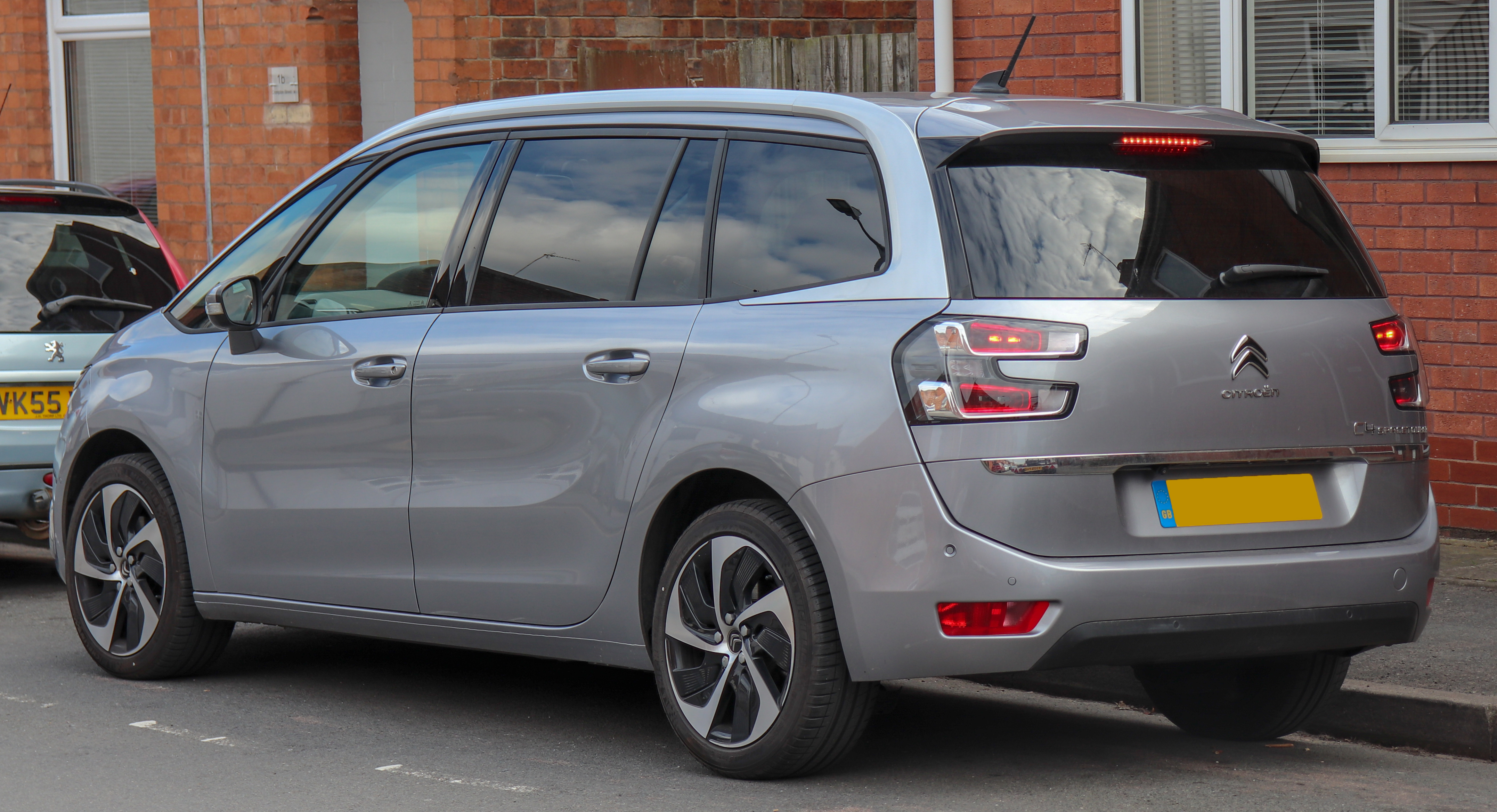 2019 Citroen C4 Grand Spacetourer Flair BlueHDi 2.0 Rear Taken in Warwick